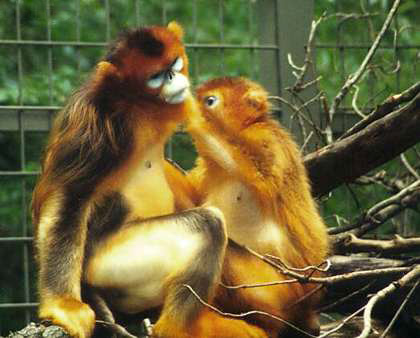 Golden snub-nosed monkey